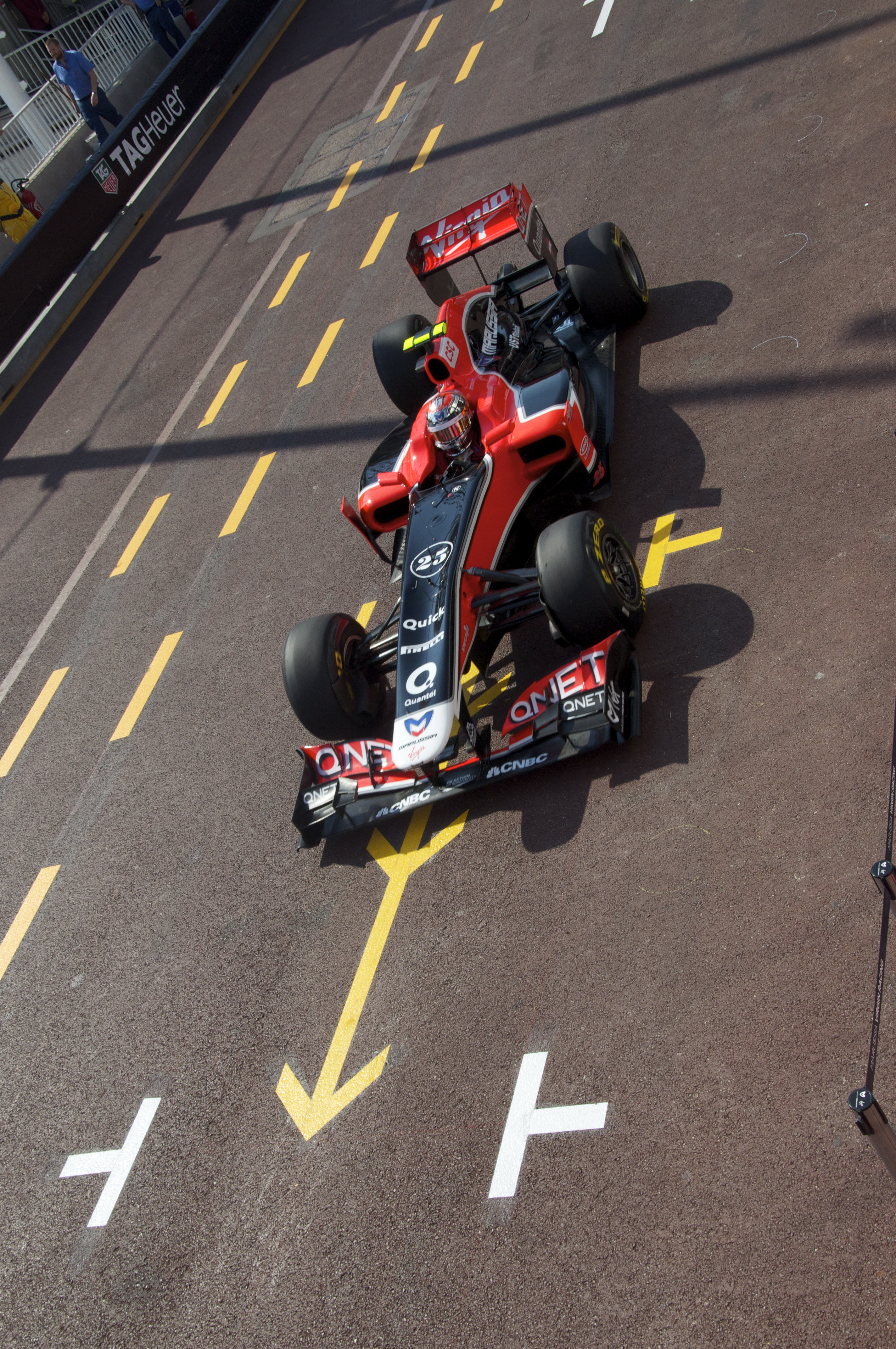 Monaco Grand Prix 2011